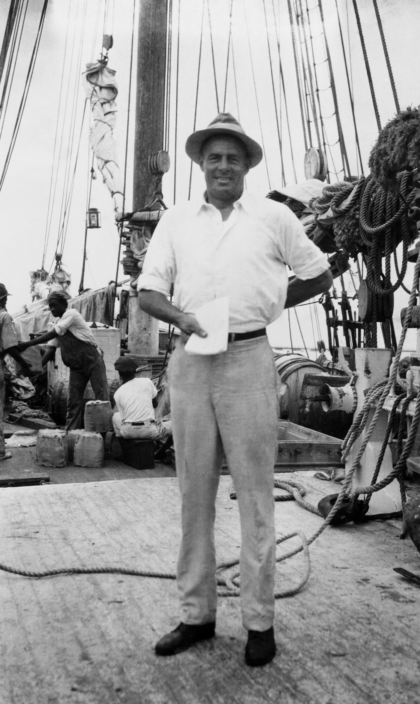 Rumrunner Captain William S.(Bill) McCoy